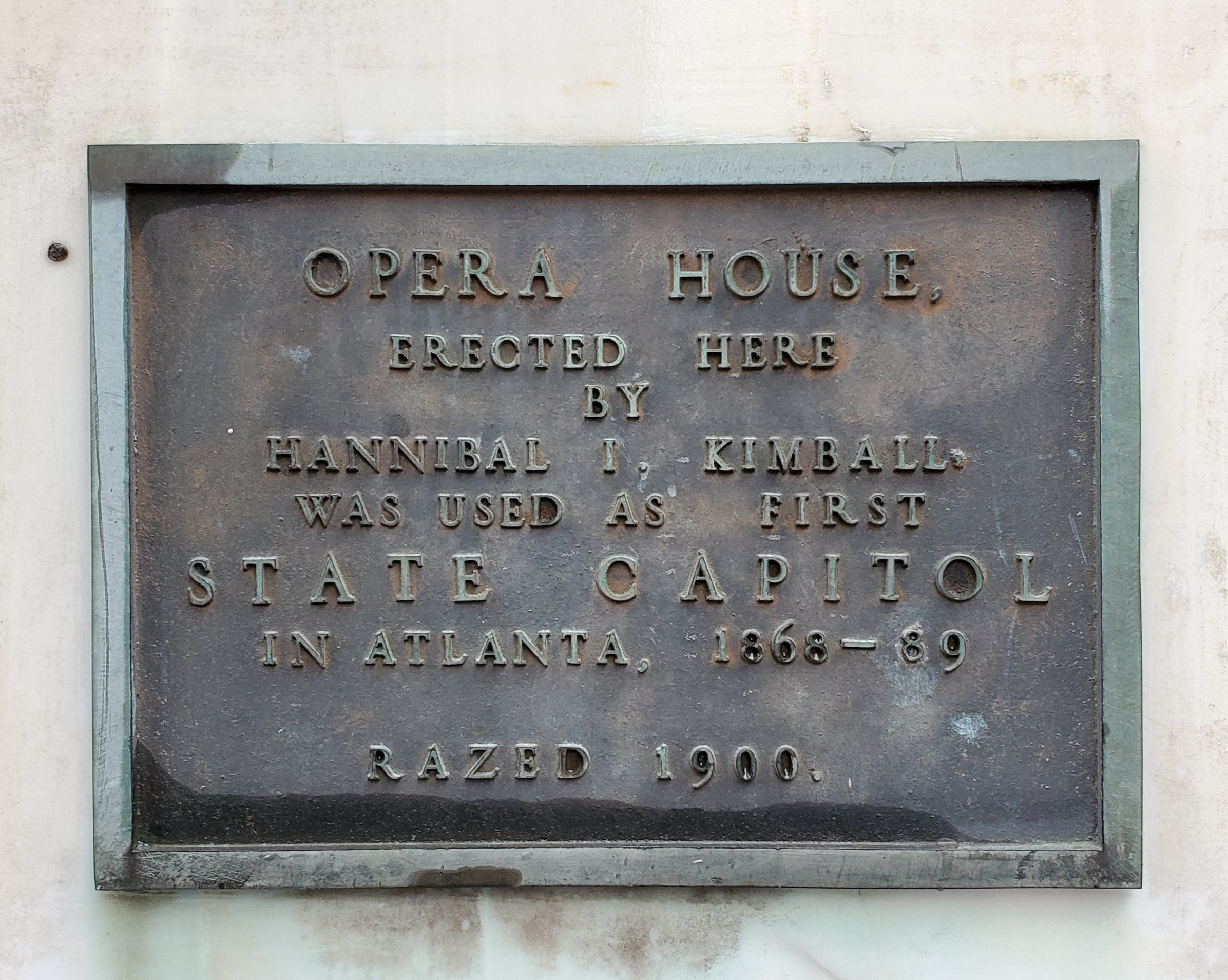 Plaque recognizing the location of Kimball Opera House in Atlanta, Georgia.